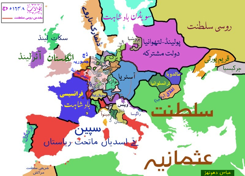 Europe in 1648 A.D ,Europe history map in Punjabi.